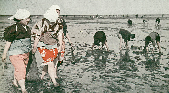 Clam digging near Haneda Air Field.